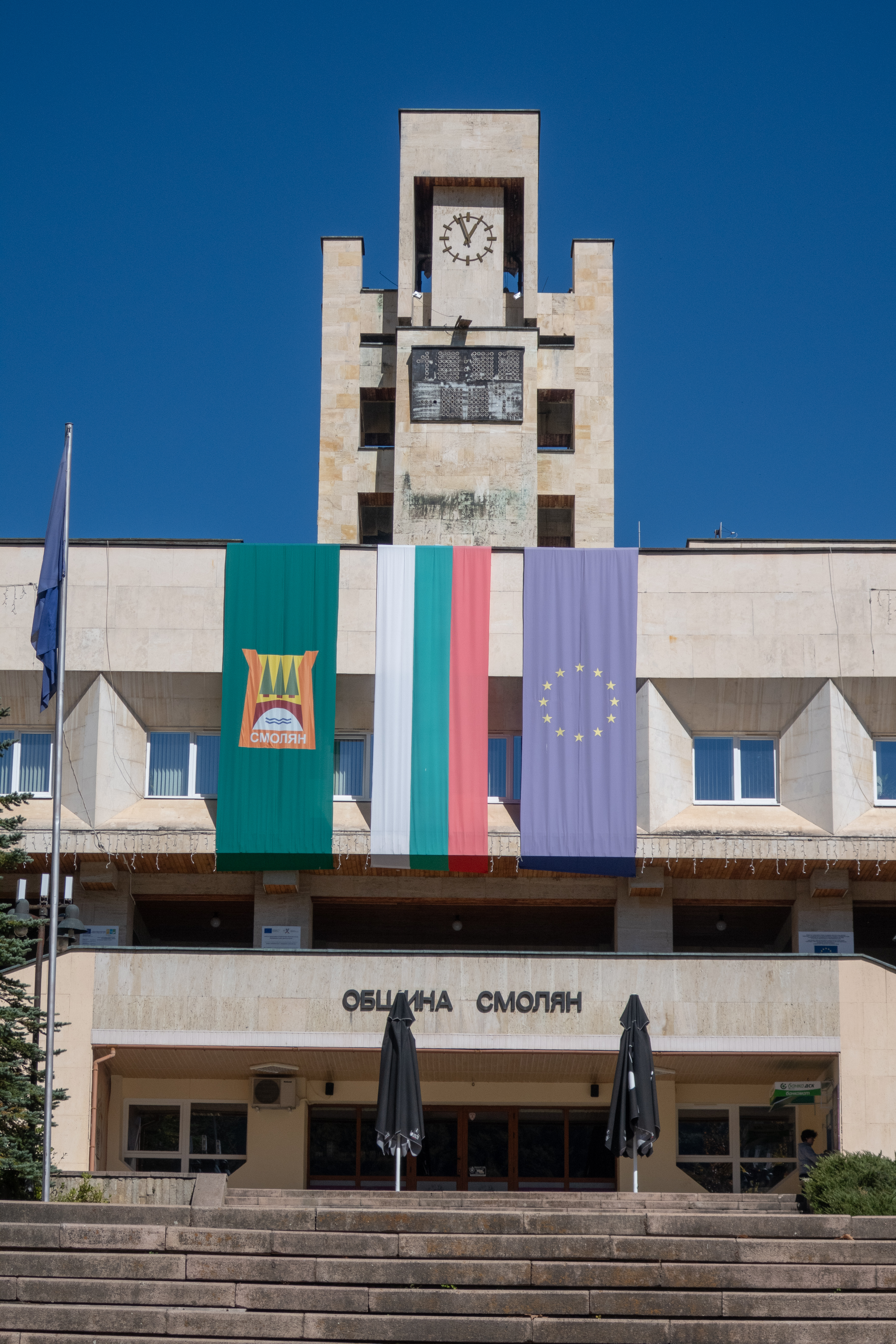 Smolyan